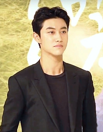 Love in the Moonlight Press Conference